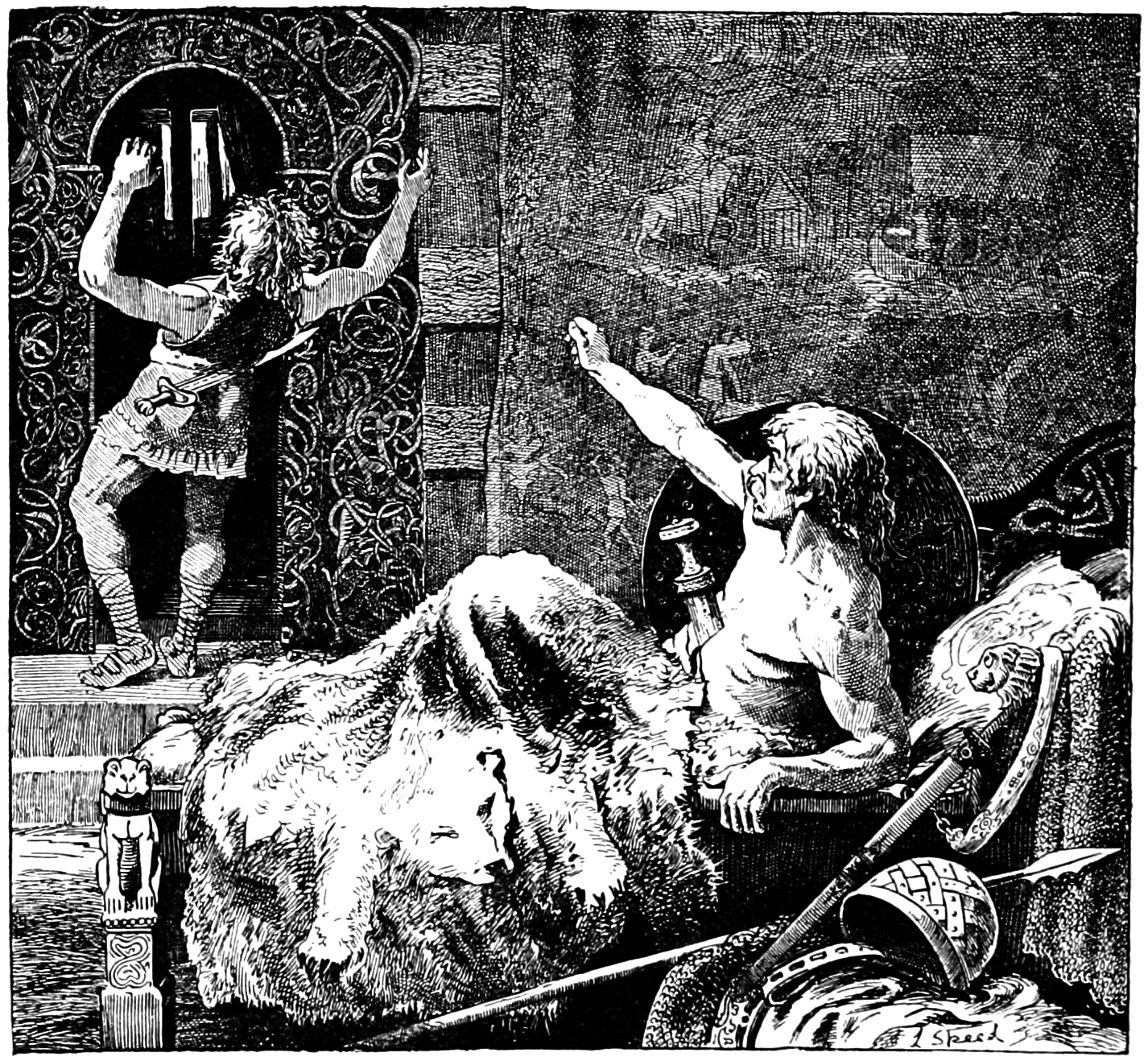 Illustration from "The Story of Sigurd" in The Red Fairy Book, 1890.